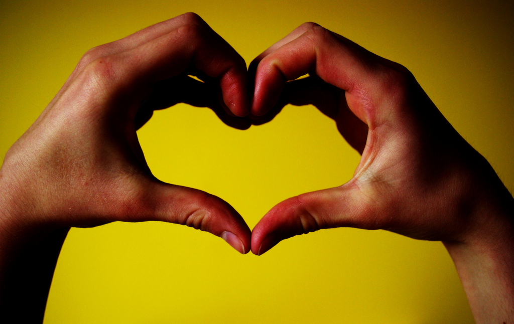 I know it's not Valentine yet but I'm full of love ideas these days...I will upload more for Valentine... : ) And don't forget: I love you all!